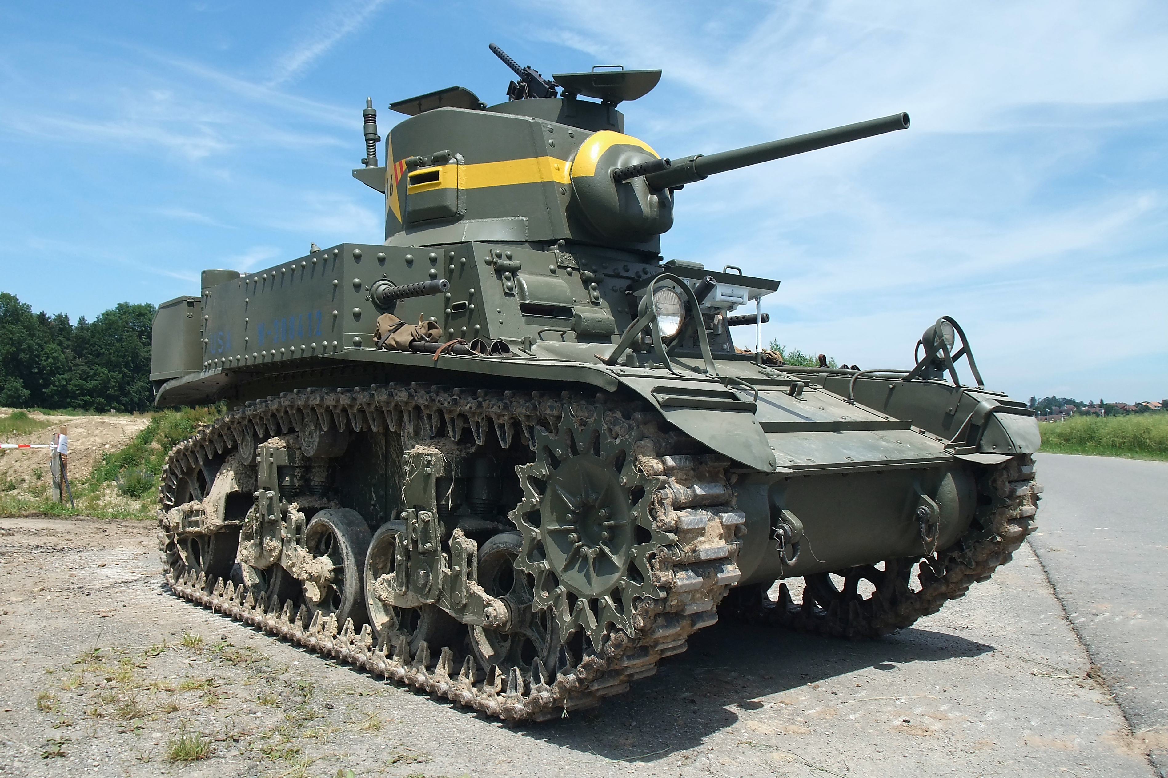 The american light tank M3 was deployed in the second world war from 1941 on. It has been used rarely as a combat tank, but because of its speed primary for reconnaissance. Army-meeting in Kradolf, Switzerland, June 25, 2010. See where this picture was taken